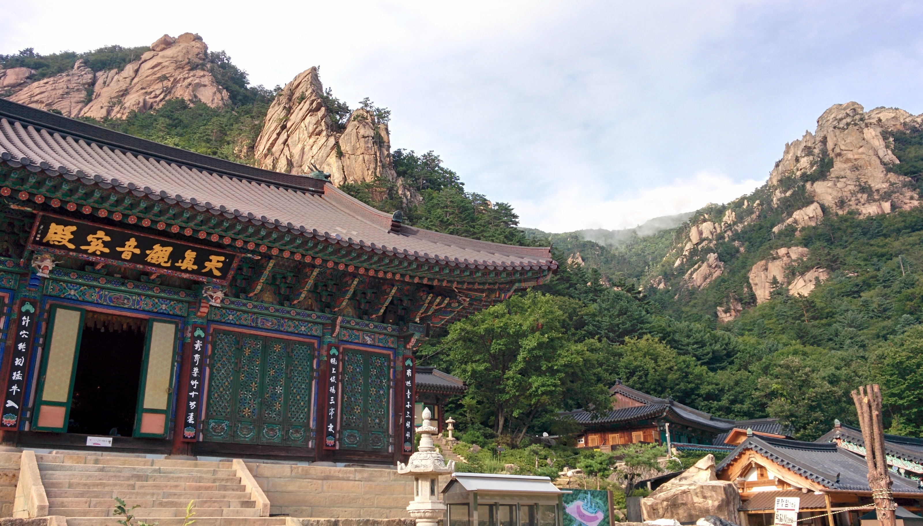 Oseam, a Buddhist temple in the mountains of Gangwon Province, South Korea, with surrounding peaks, August 2018